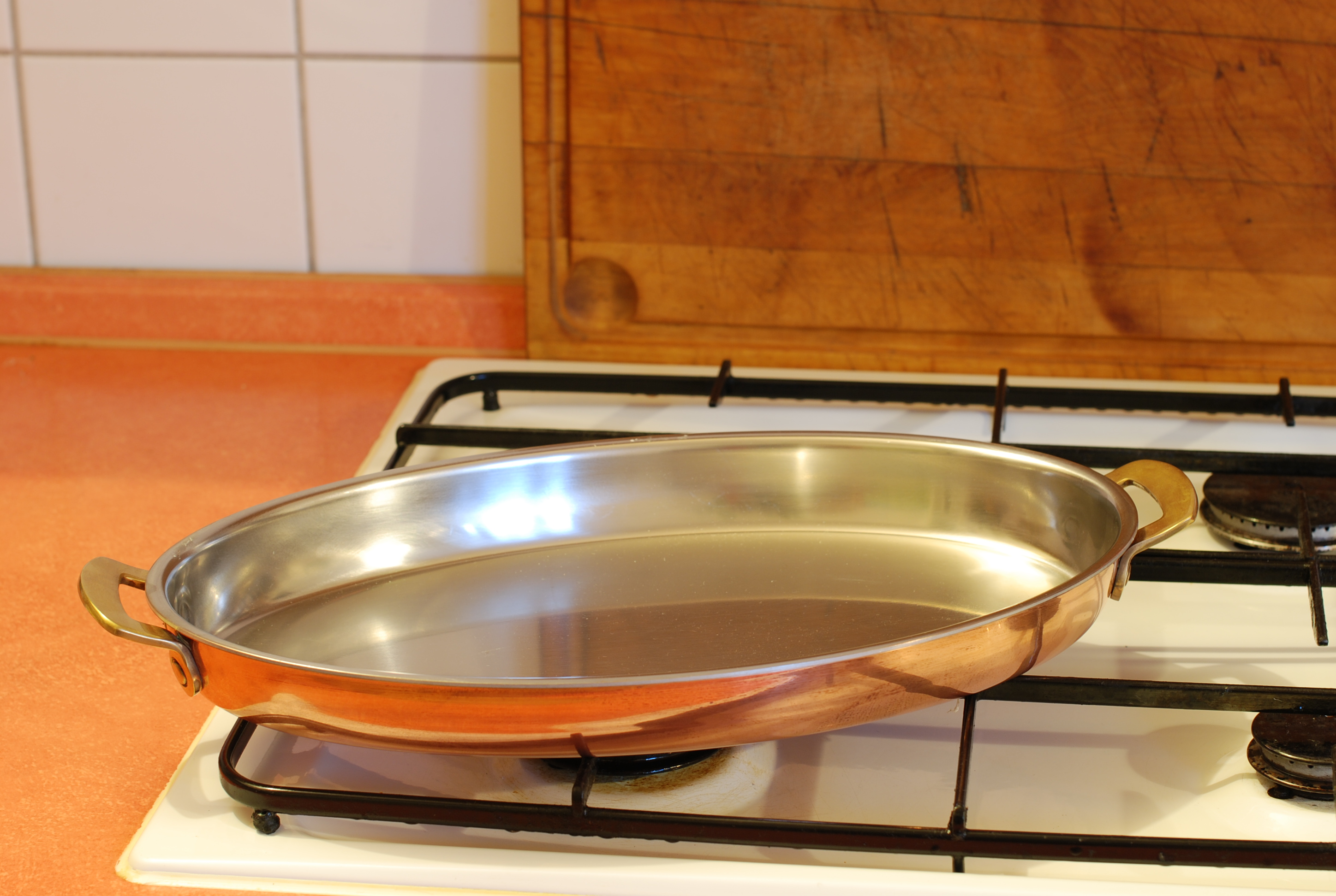 Oval shaped copper pan with diameters of 20 × 35,6 cm used for cooking fish. Inside is stainlees steel, outside copper. Between the copper and the steel layer there is a layer of aluminium. The two grips are made of bronze. Manufactured by Spring Switzerland.